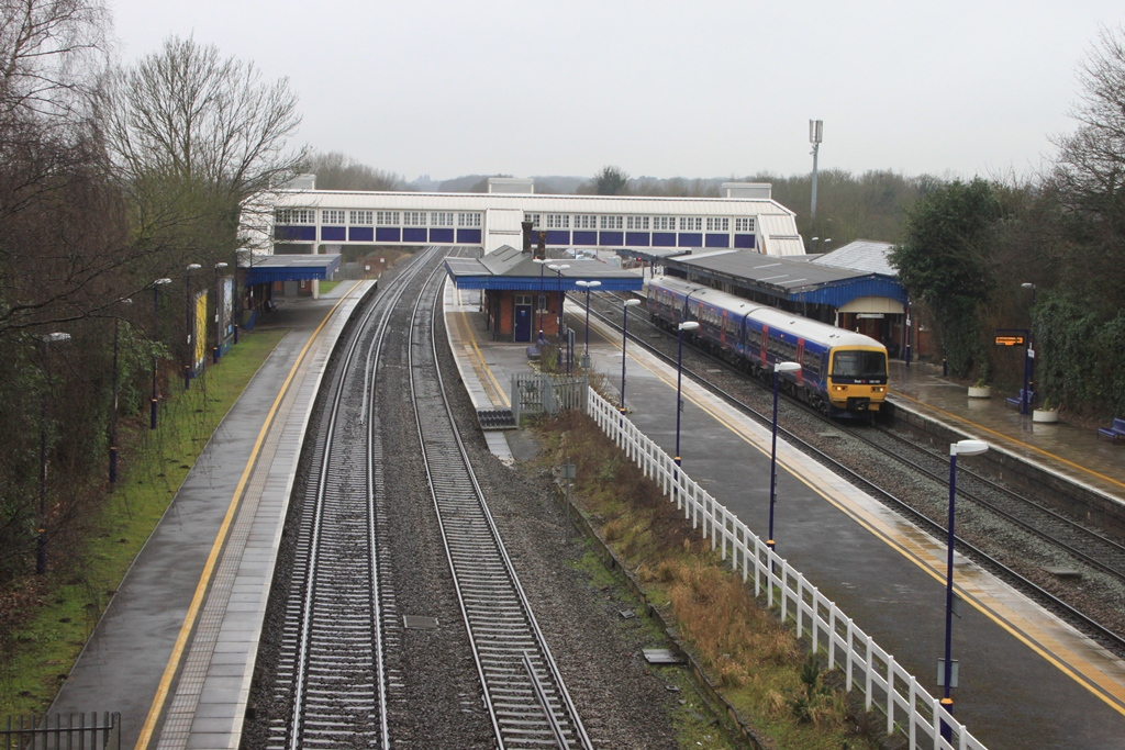 165109 calls at Twyford station with a First Great Western local service to London Paddington.